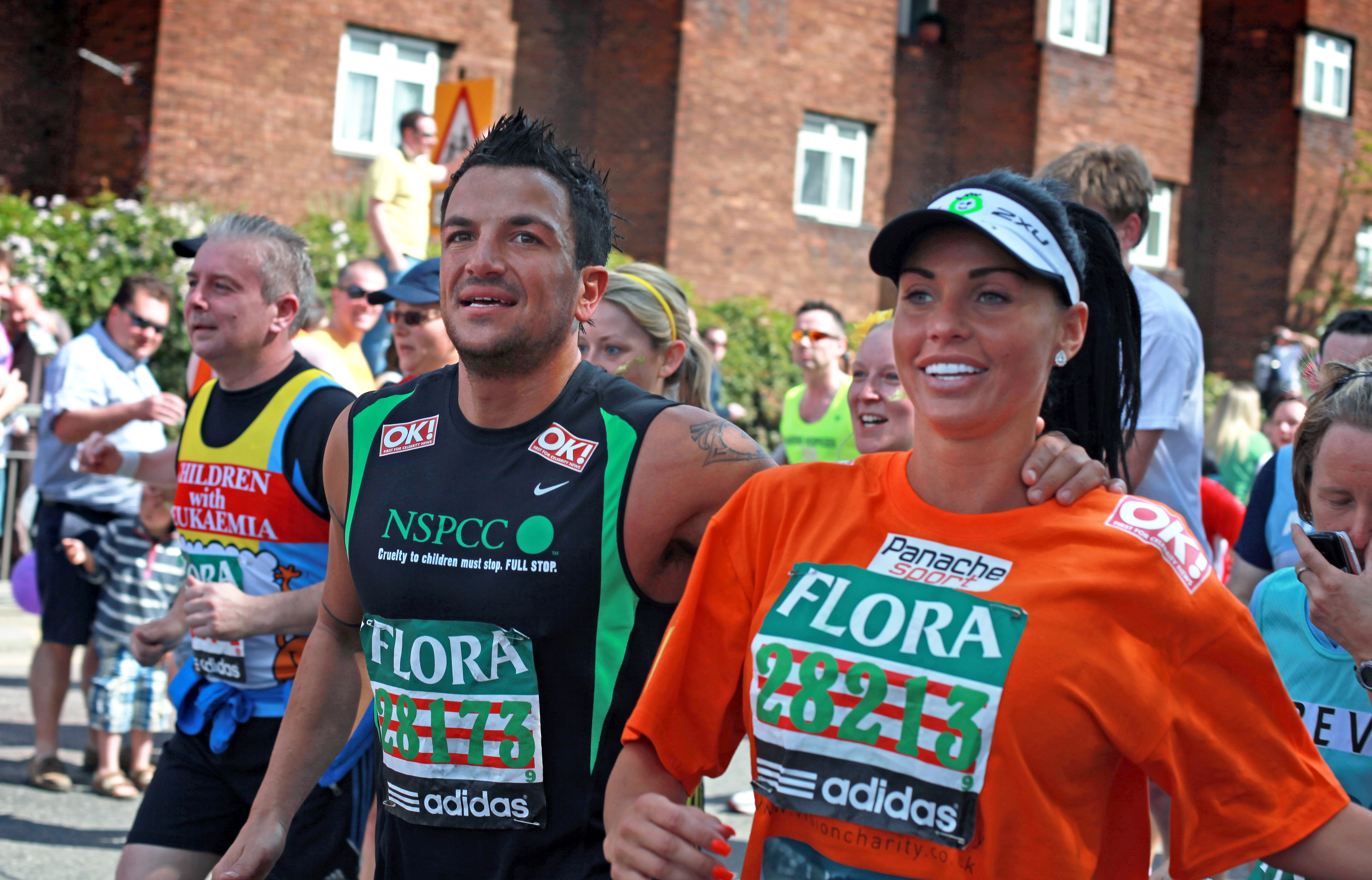 Peter Andre and Katie Price (Jordan) running in the 2009 London Marathon